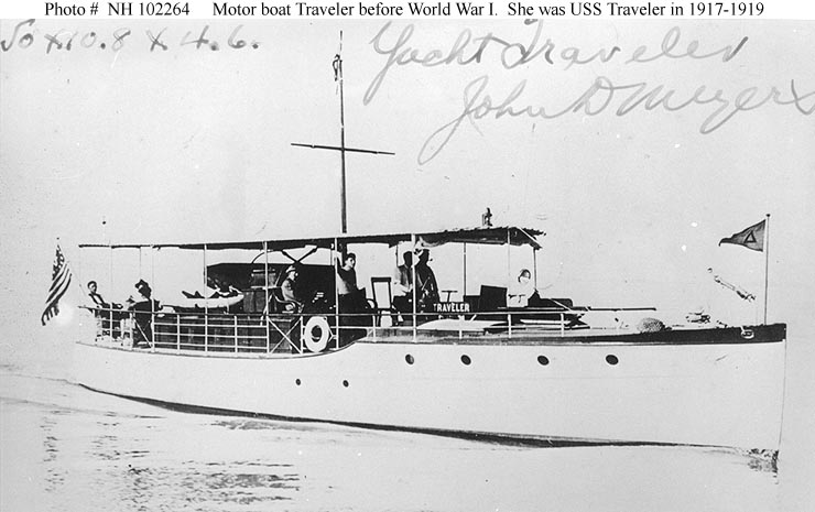 Civilian motorboat Traveler prior to her United States Navy service as patrol boat USS Traveler (SP-120)